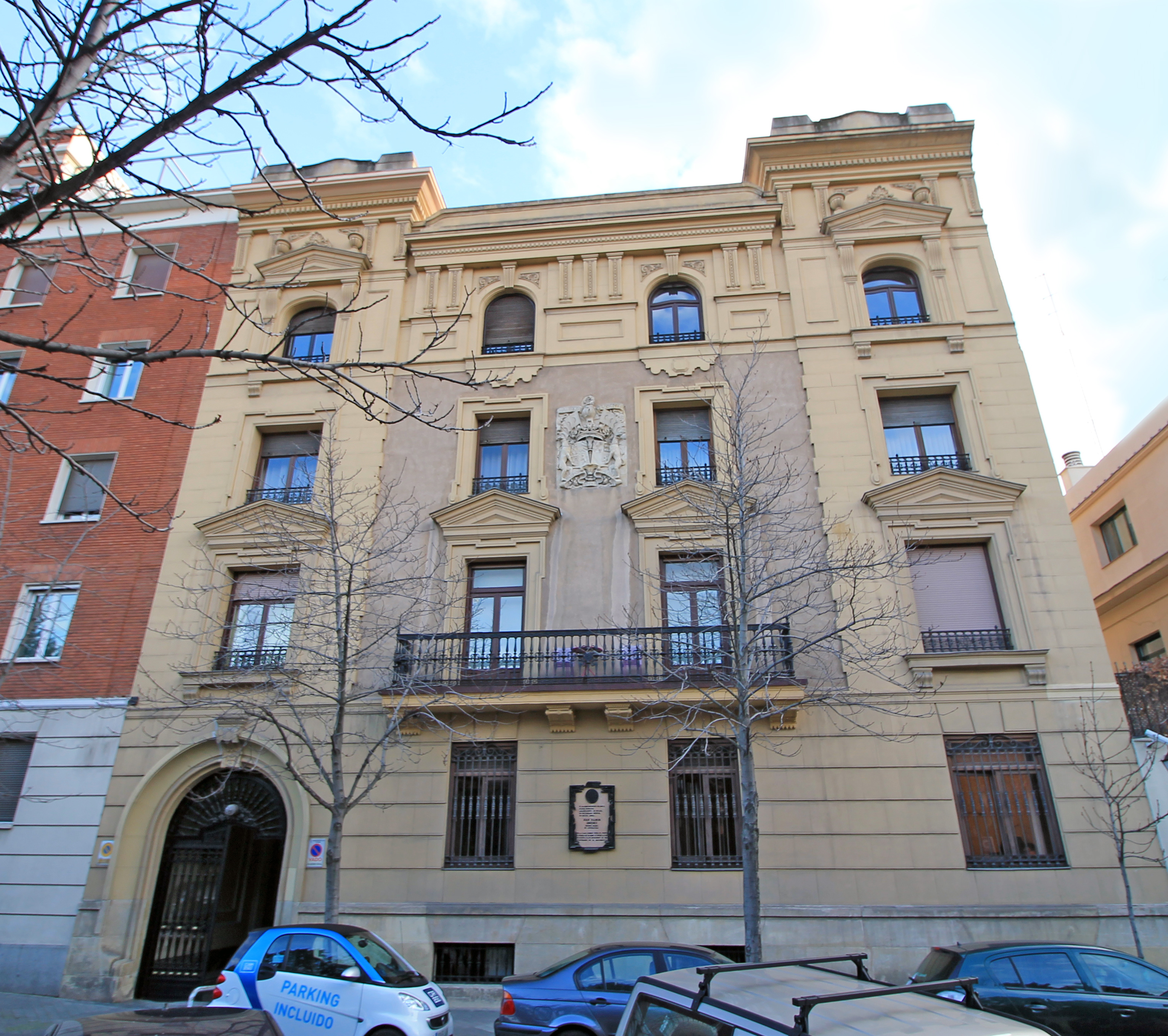 Building at 38 Calle de Padilla (street) in Salamanca district in Madrid (Spain). It was designed as a mansion by architect Bernardo Giner de los Ríos and built in the 1920's. Writer Juan Ramón Jiménez lived in it from 1929 to 1936.